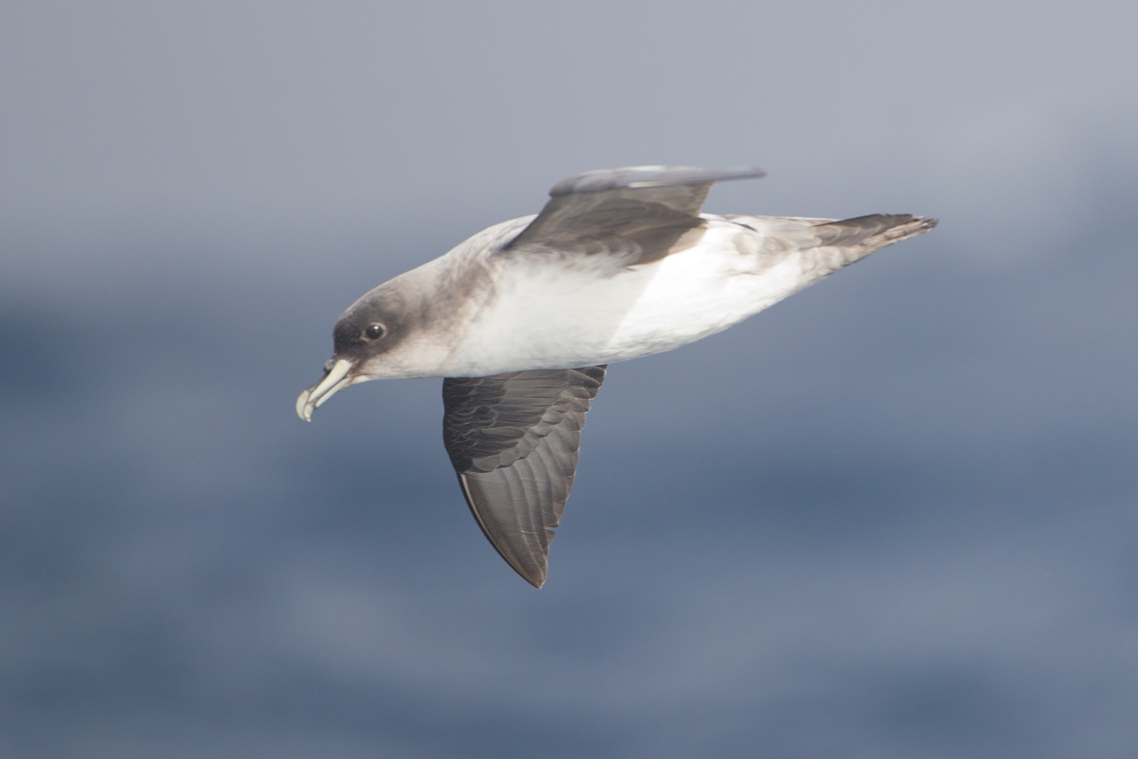 Grey Petrel (Procellaria cinerea) in flight, East of the Tasman Peninsula, Tasmania, Australia